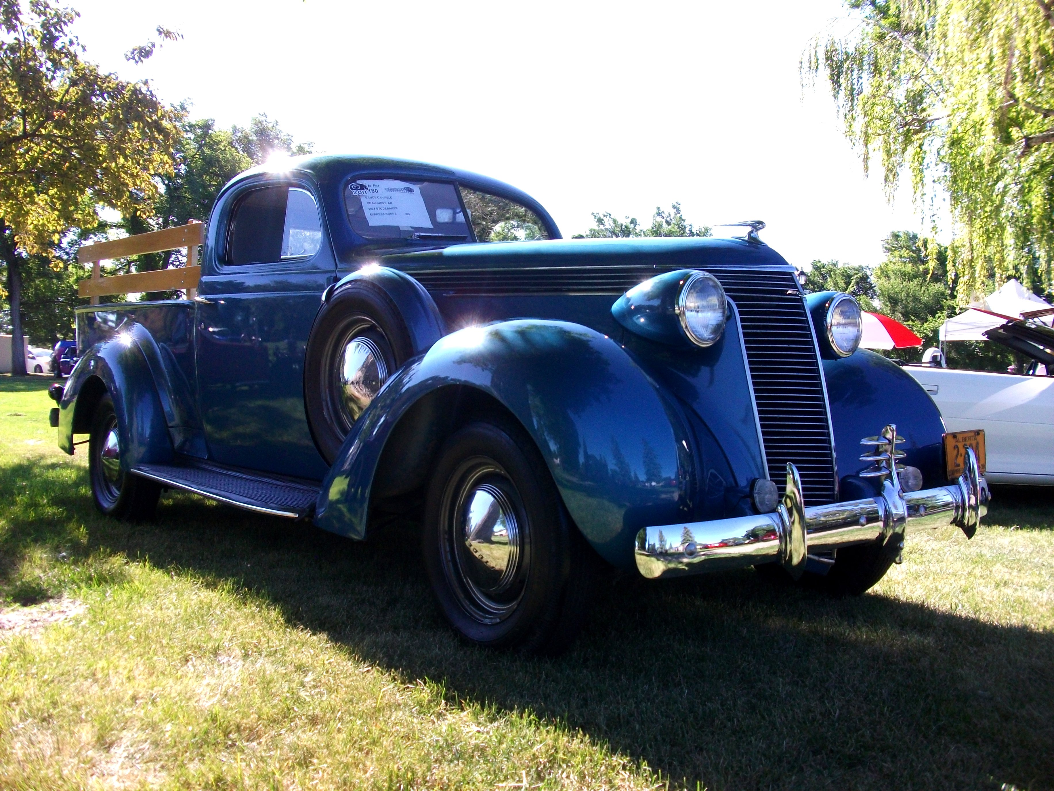 Quite a rare 1937 Studebaker Express Coupe J-5. These classic trucks were on of the first attempted to provide a more civilized/upmarket truck. The cab and forward was mostly a Studebaker Dictator coupe and the rear was a 1/2 ton pickup box. Car like amenities where available. There were only 3,500-3,800 produced in 1937.